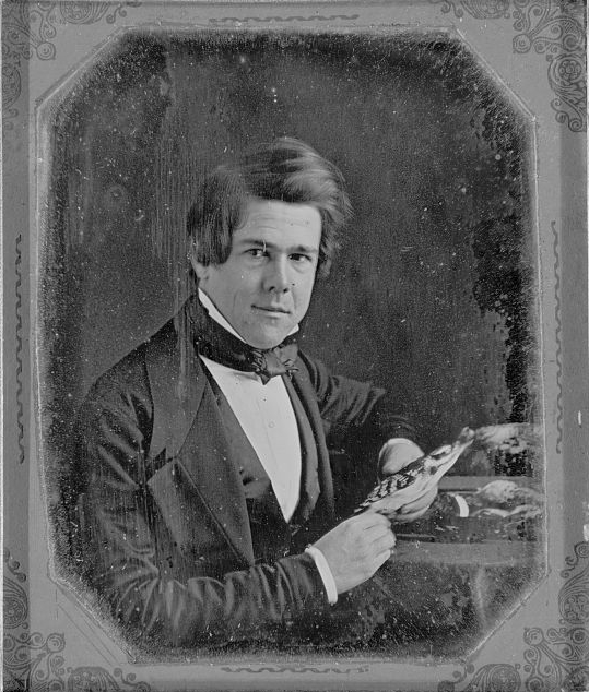 American ornithologist Samuel Washington Woodhouse (1821-1904) holding a stuffed bird specimen